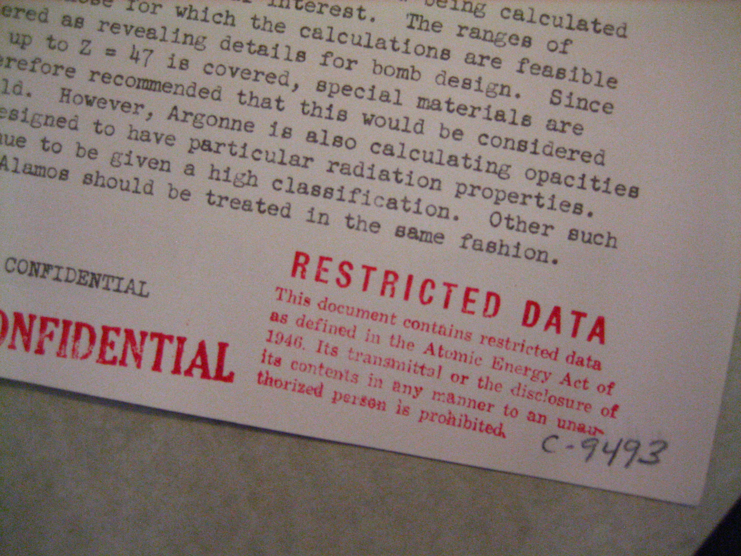 A "Restricted Data" classification stamp on document from the U.S. Atomic Energy Commission in the early 1950s. The document pertains to the classification of opacity calculations which were part of work on the hydrogen bomb. The document is no longer classified and available in the U.S. National Archives. The stamp reads: "RESTRICTED DATA. This document contains restricted data as defined in the Atomic Energy Act of 1946. Note that the document is also classified as "Confidential." Its transmittal or the disclosure of its contents in any matter to an authorized person is prohibited." The original document is in the public domain as a work of the U.S. federal government, but this photograph of it (and its artful arrangement) is copyrightable and requires compliance with the CC-Attribution license.